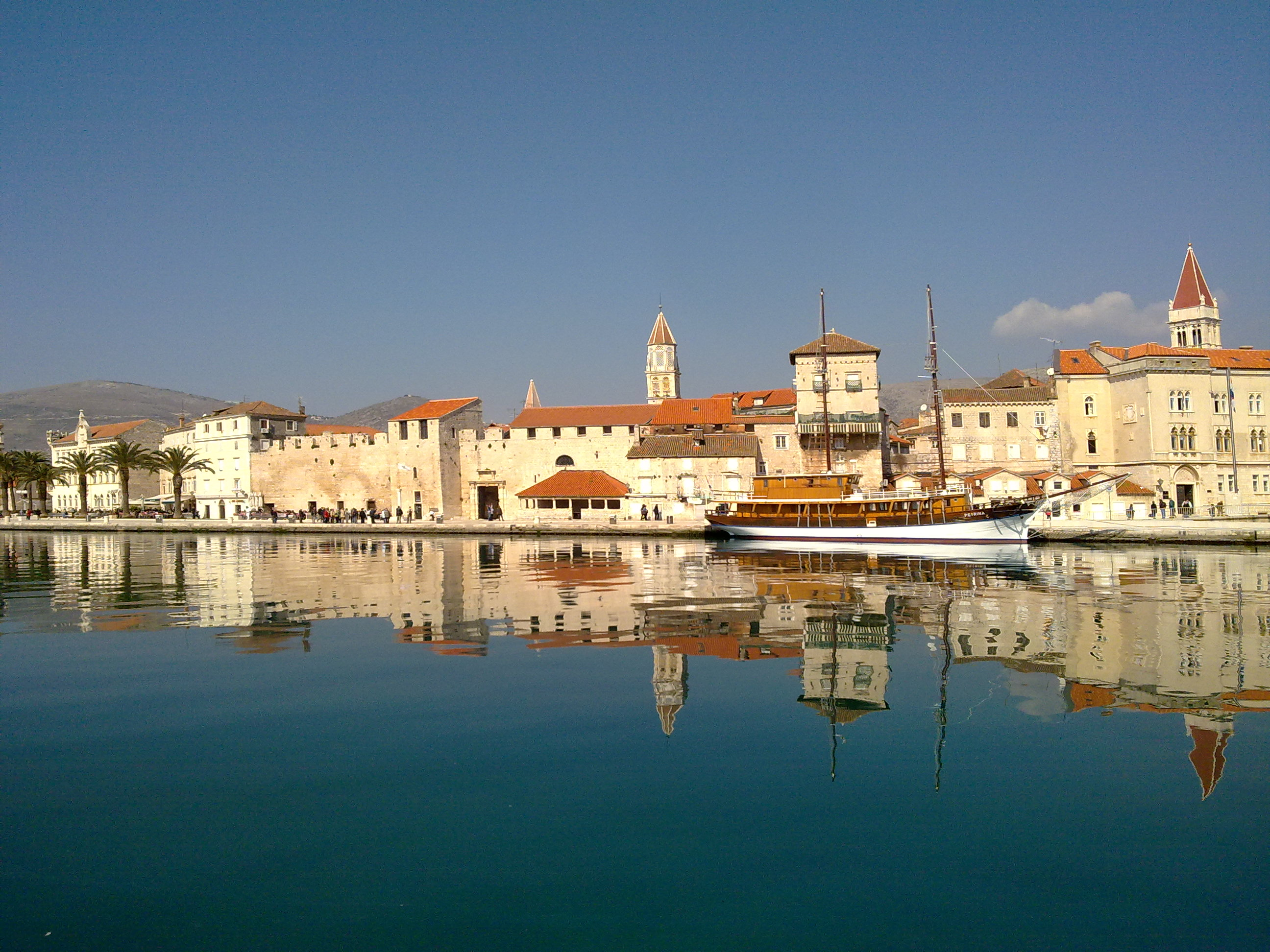 Old town of Trogir, Croatia. Picture taken from the island of Čiovo.